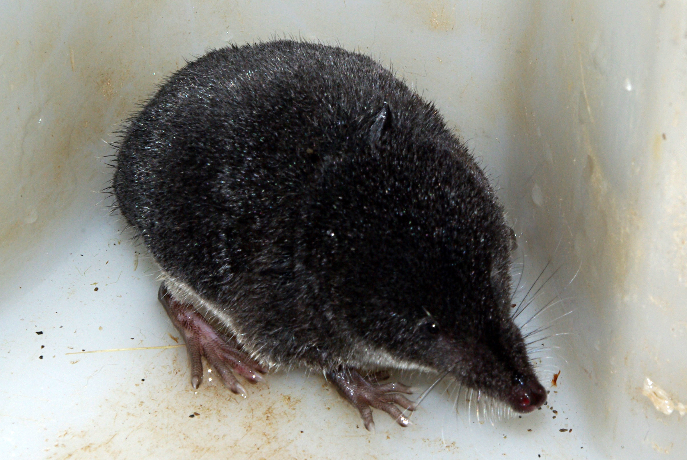 Mediterranean Water Shrew (Neomys anomalus) near Riaño, León (Spain)